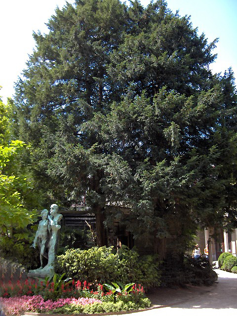 Species Taxus baccata Family Taxaceae